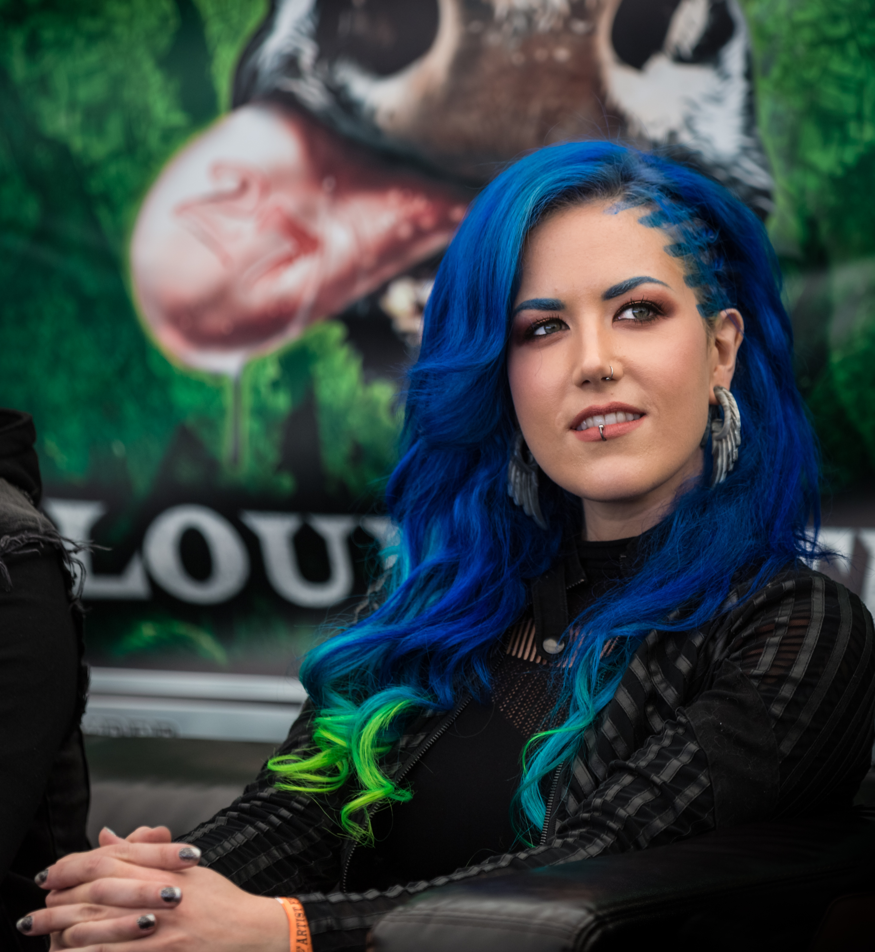 Alissa White-Gluz of Arch Enemy - Wacken Open Air Press Room 2016